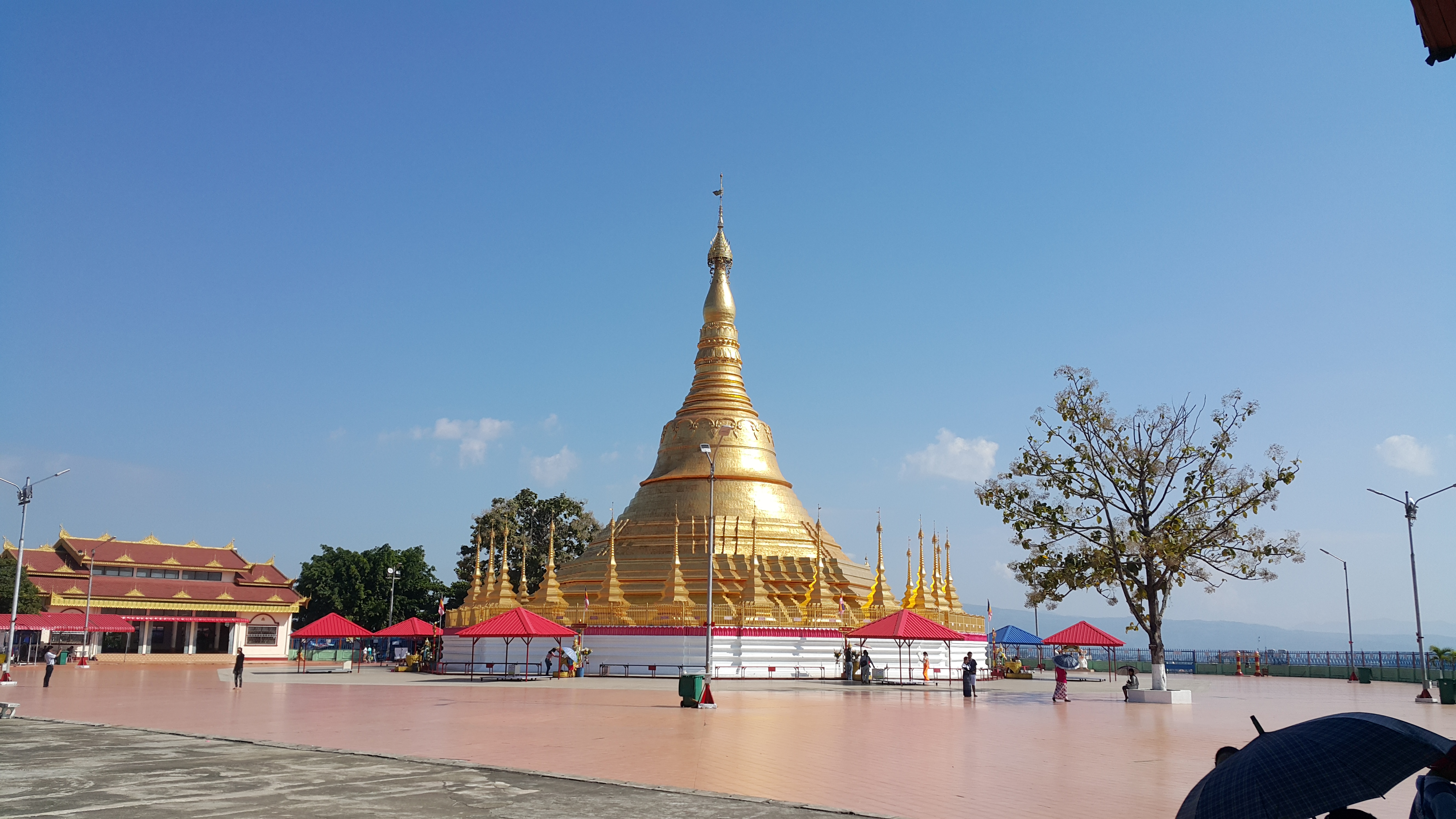 A pagoda in Thachiliek, Myanmar